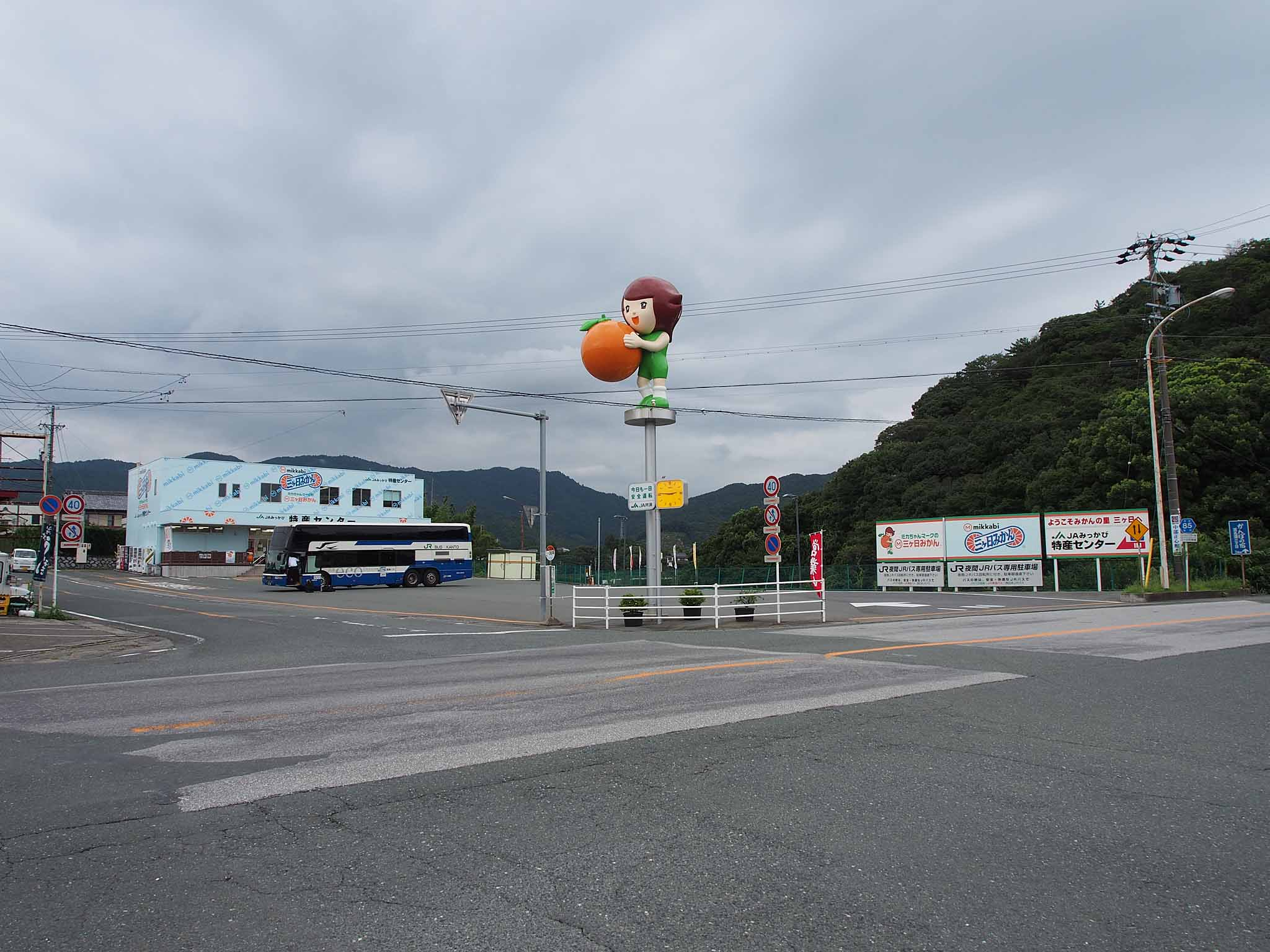 JR Bus Kanto"Seishun Hiru Tokkyu" stopping at Mikkabi dept, for drivers change. Model: Mitsubishi Fuso Aero King BKG-MU66JS License plate: TKA200 KA2154